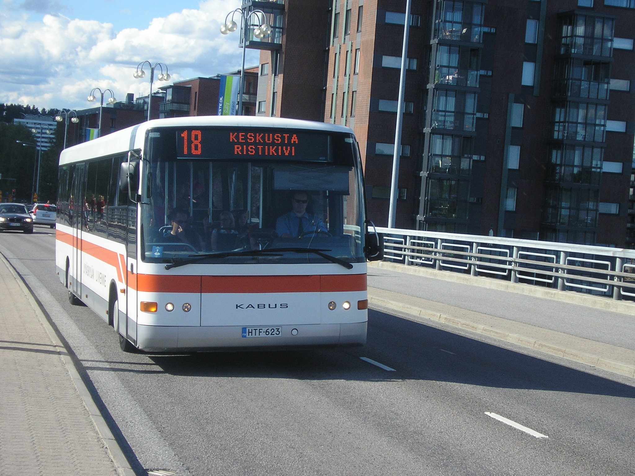 Kabus TC6A4/6450 bus (#423) of Jyväskylän Liikenne in Jyväskylä, Finland. Built 2006.